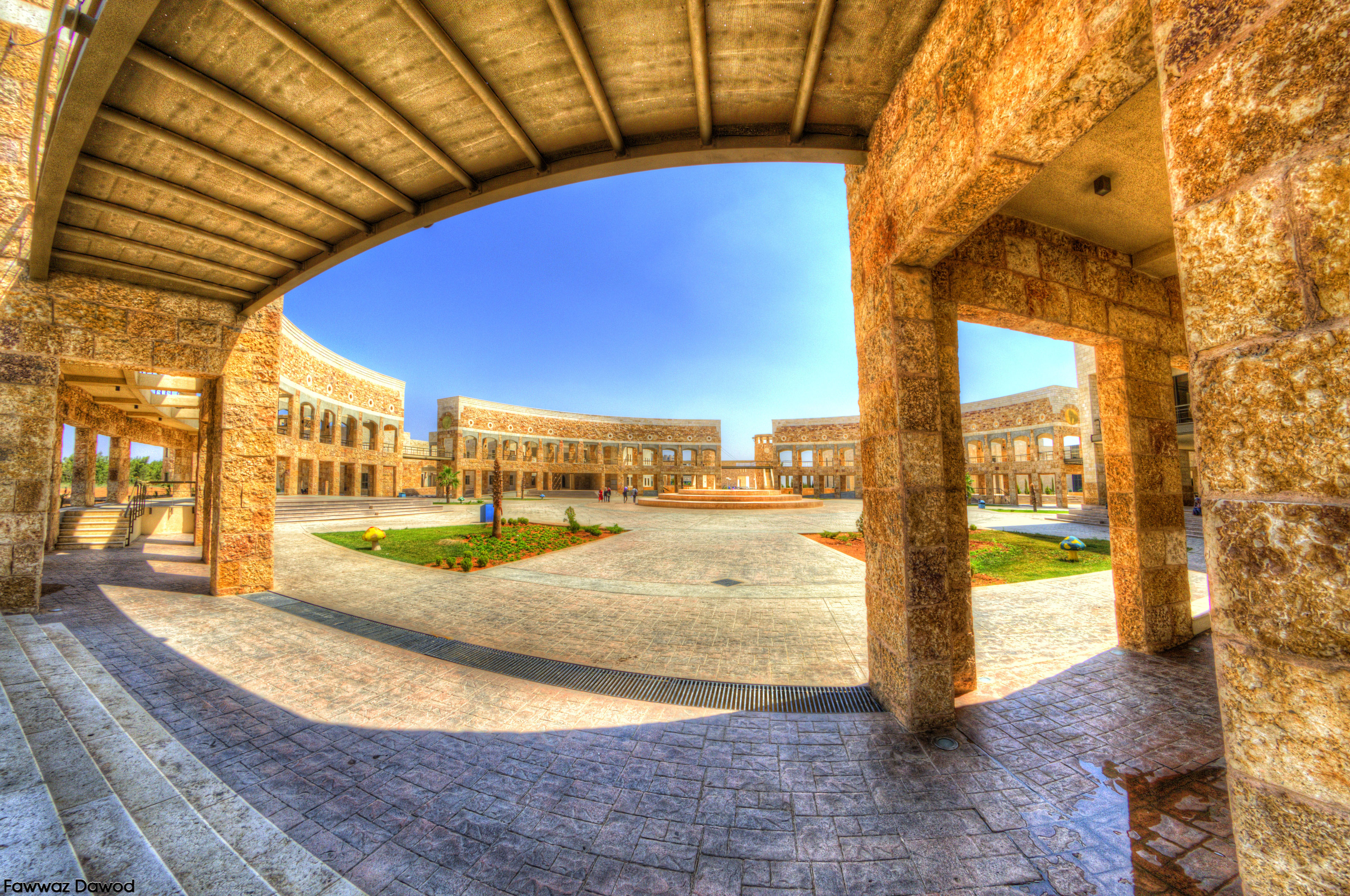 JUST University's Library - Largest library in the Middle East. Irbid, Jordan